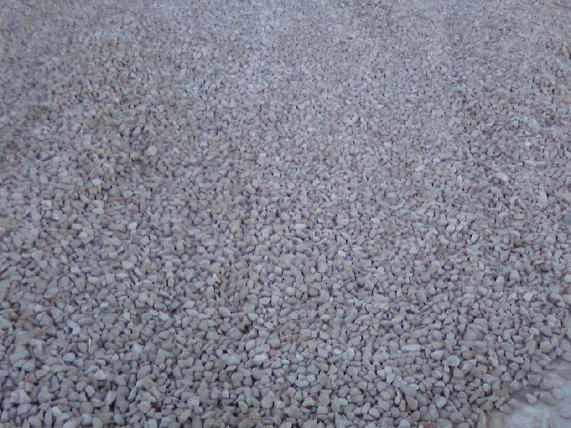 How to ruin sandy beach